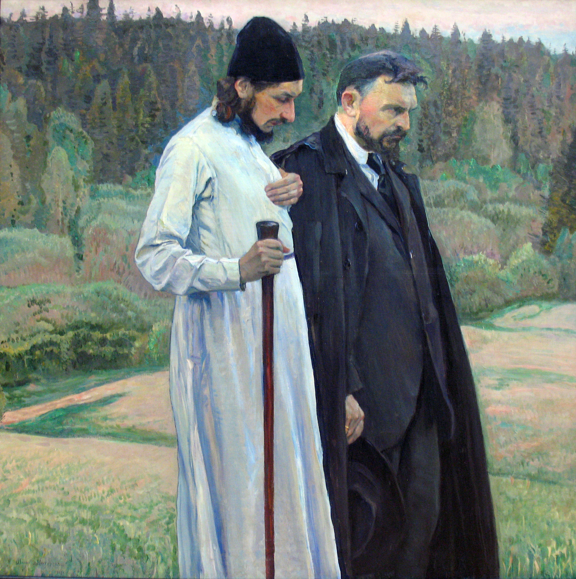 Philosophers (S.N. Bulgakov and P.A. Florensky)